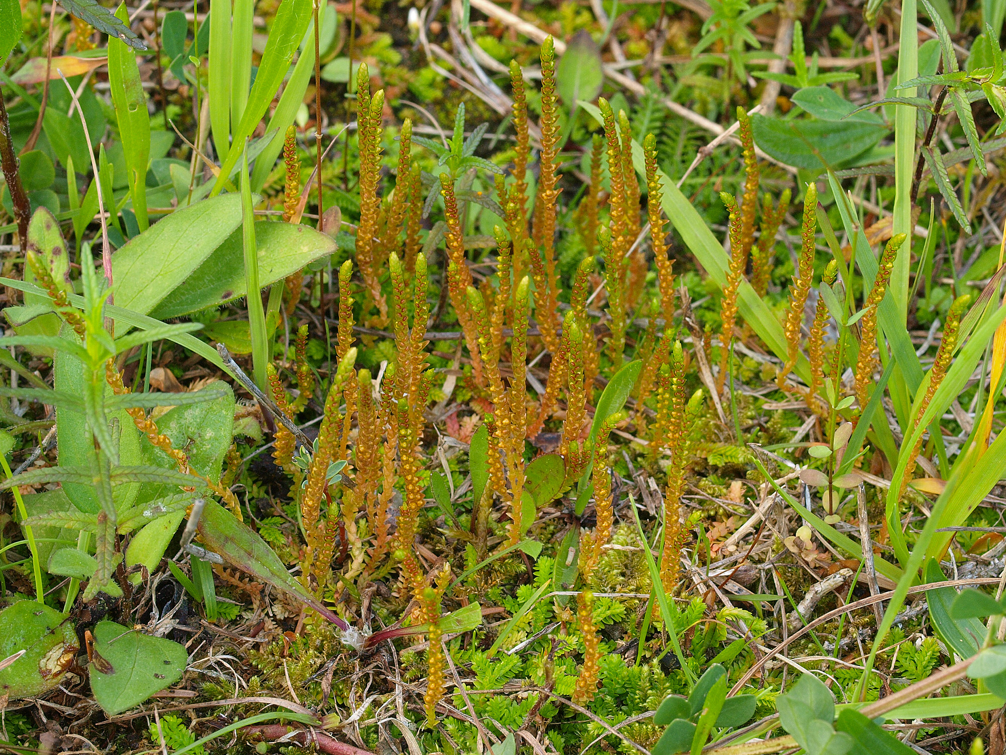 Swiss Clubmoss (Selaginella helvetica)